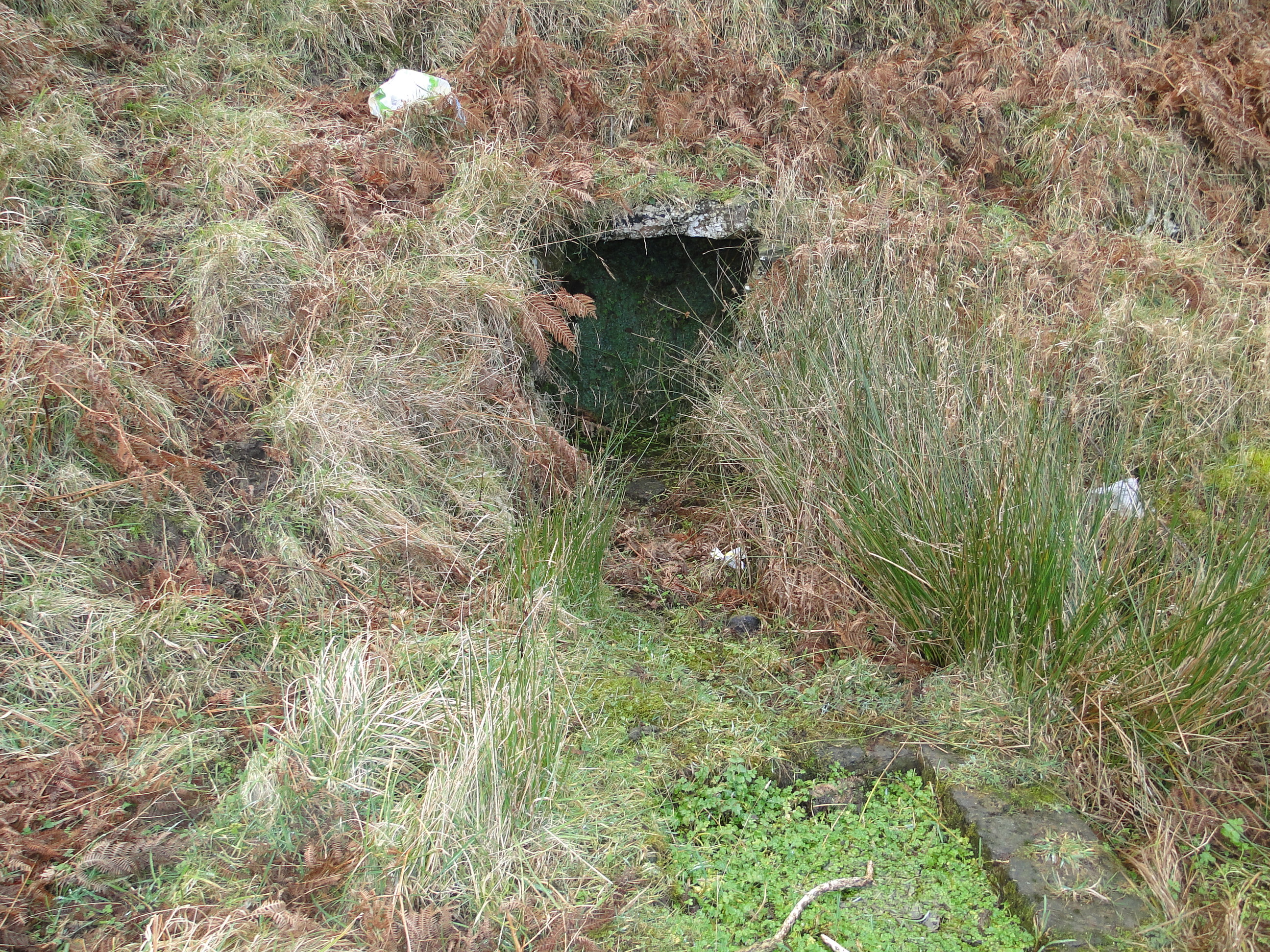 Ffynnon Tudno: one of the historic wells on the Great Orme, Llandudno